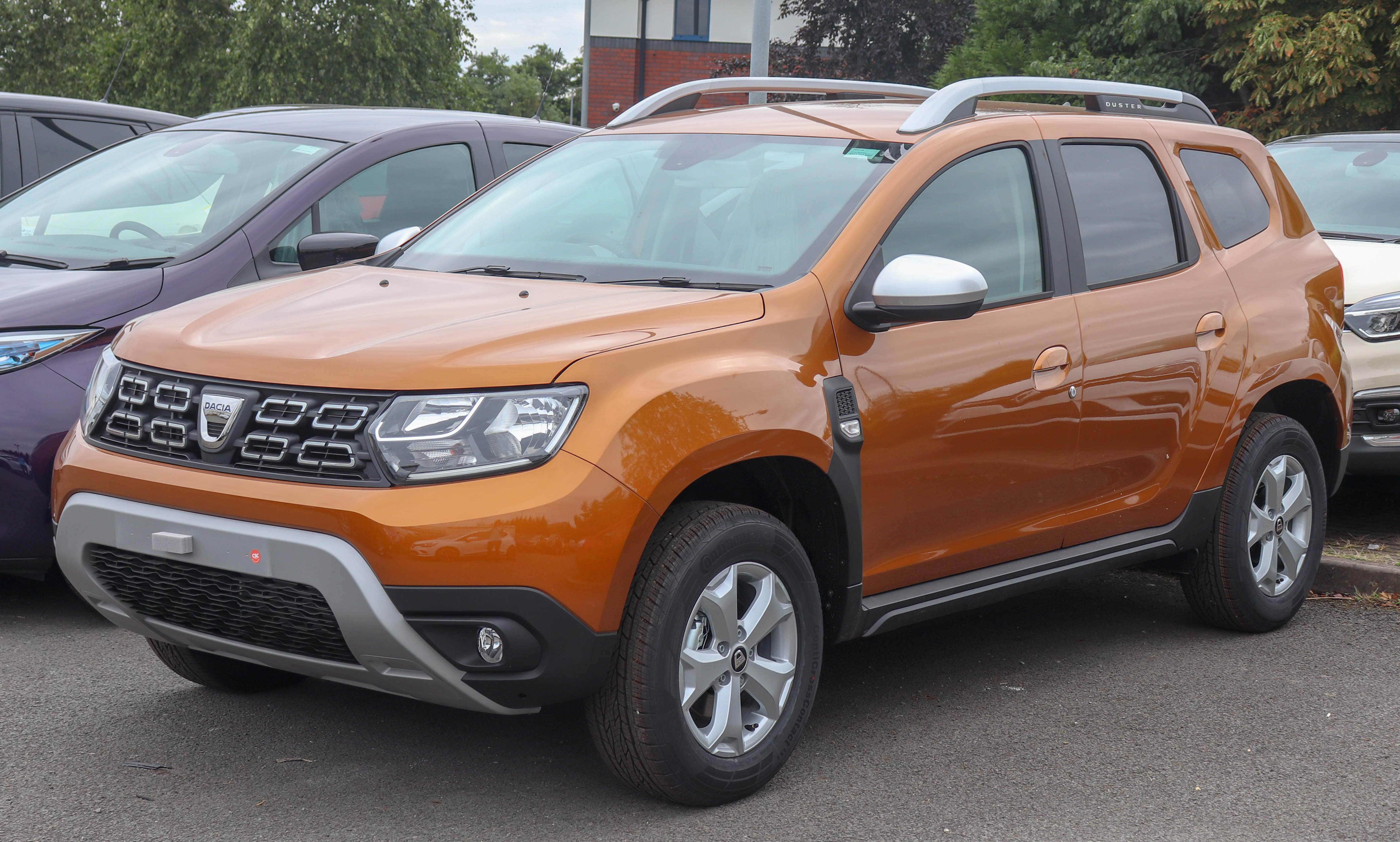 2018 Dacia Duster Comfort 1.6 Taken in Leamington Spa